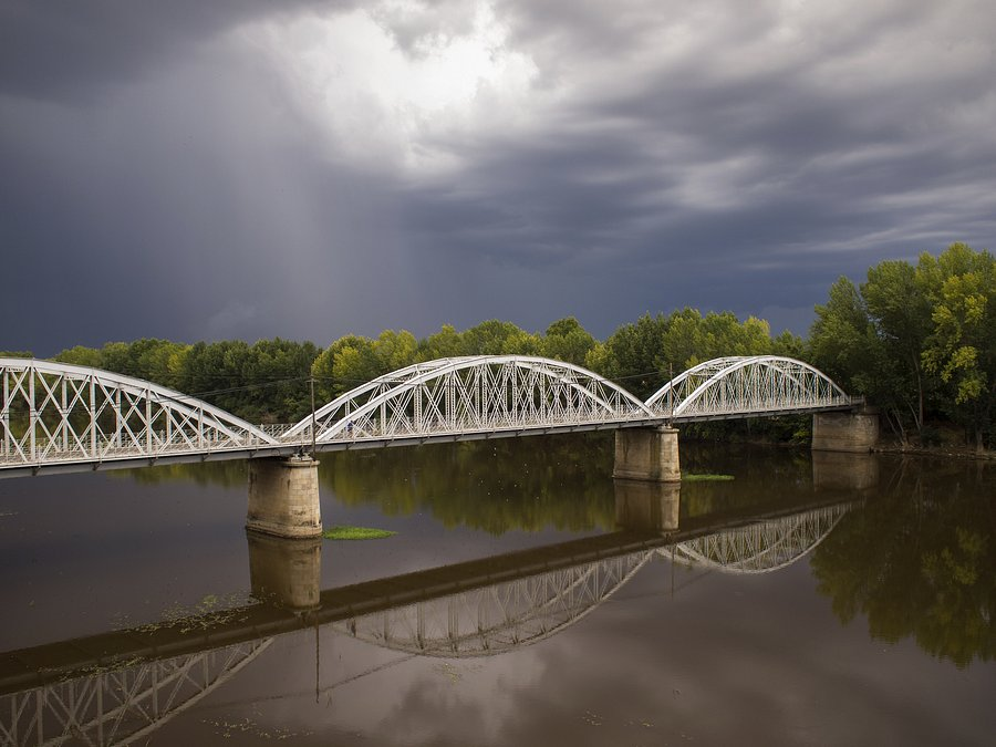 Puente de hierro